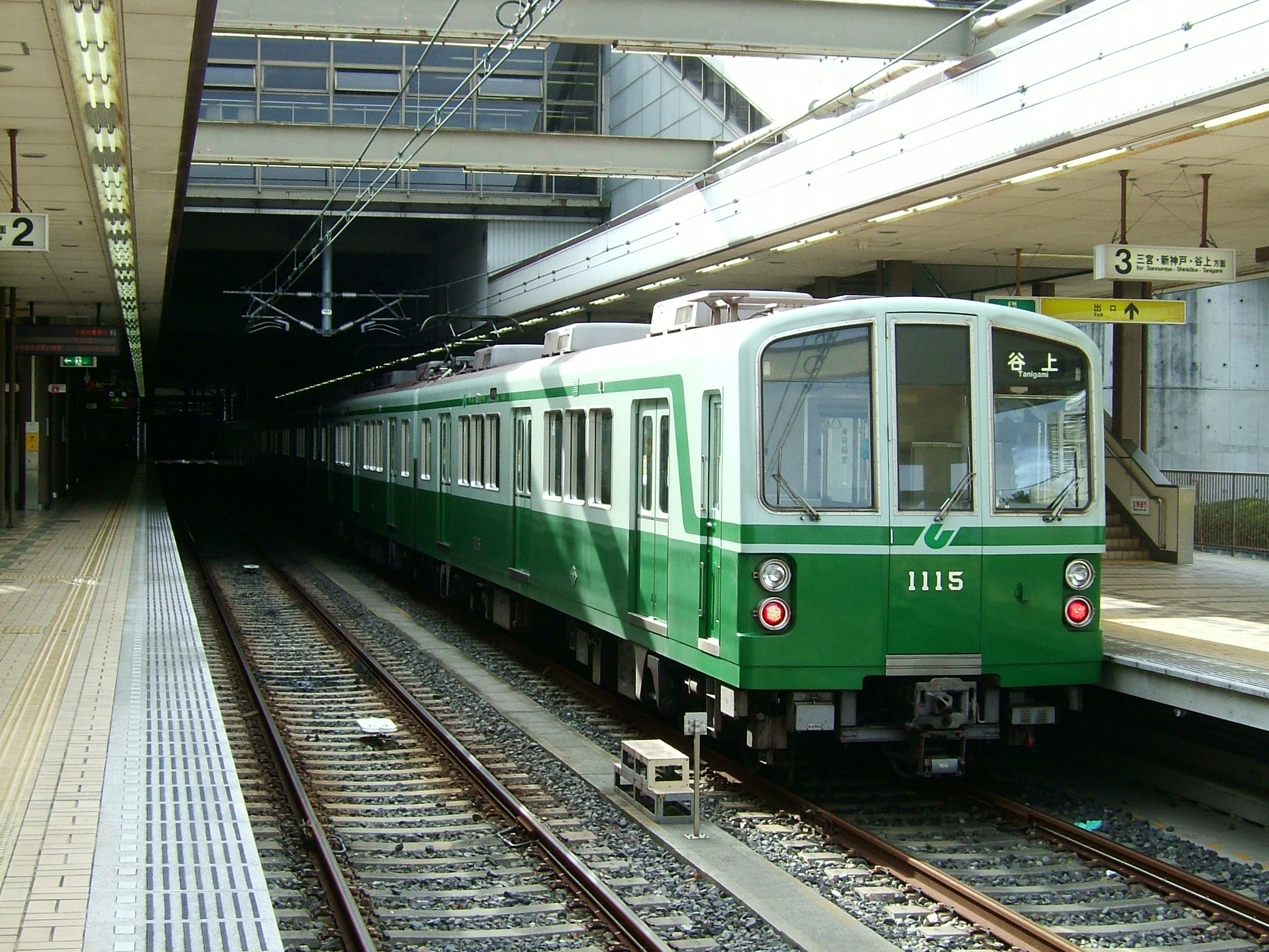 Kobe Municipal Subway series 1000